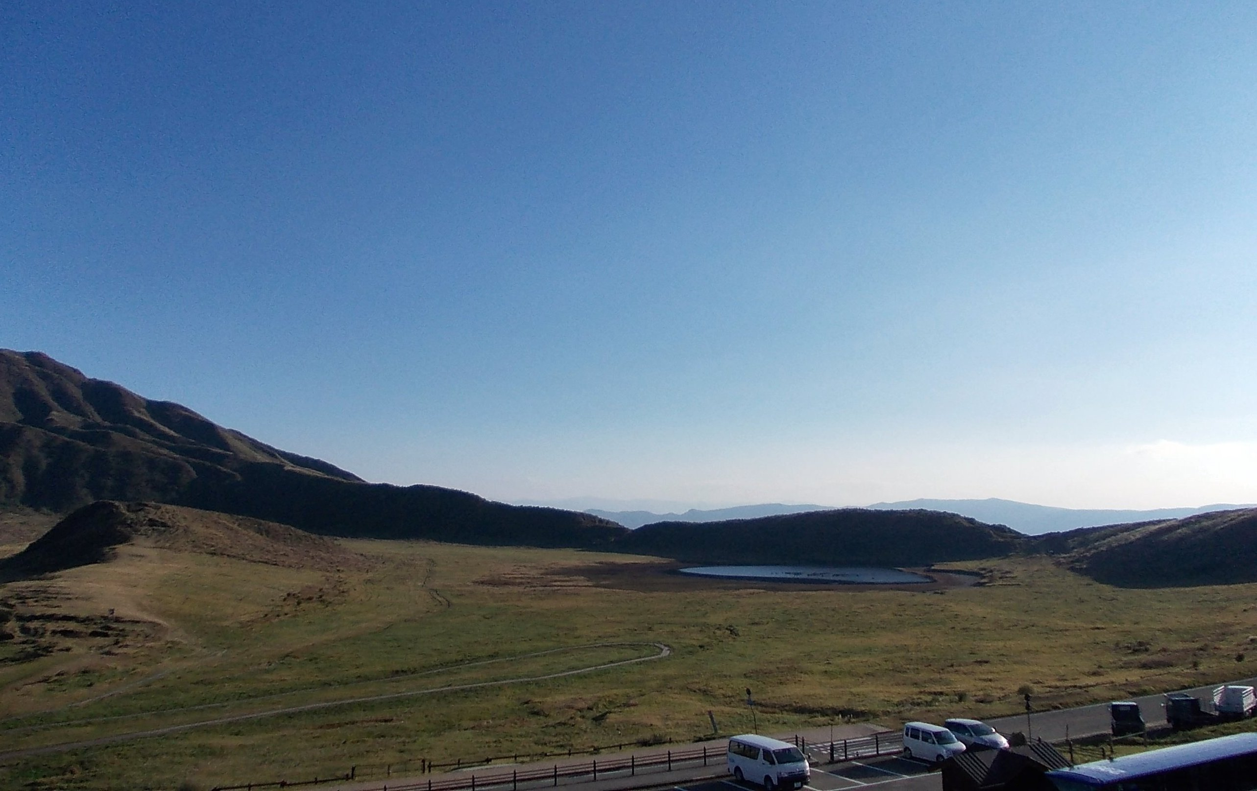 Kusasenrigahama as seen from the Aso Volcano Museum in Aso City, Kumamoto Prefecture, Japan